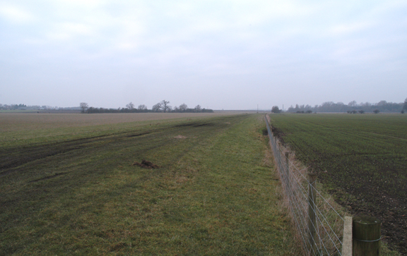 Site of disused railway line close to Shiptonthorpe, East Riding of Yorkshire, England.Facing York. The railway station at Shiptonthorpe didn't bear the name of the village but was called Londesborough Park. Londesborough is the next village towards the north east. Londesborough Hall was owned by George Hudson the man who was called the Railway King. The station, or more properly, Halt, was primarily built for his personal use.